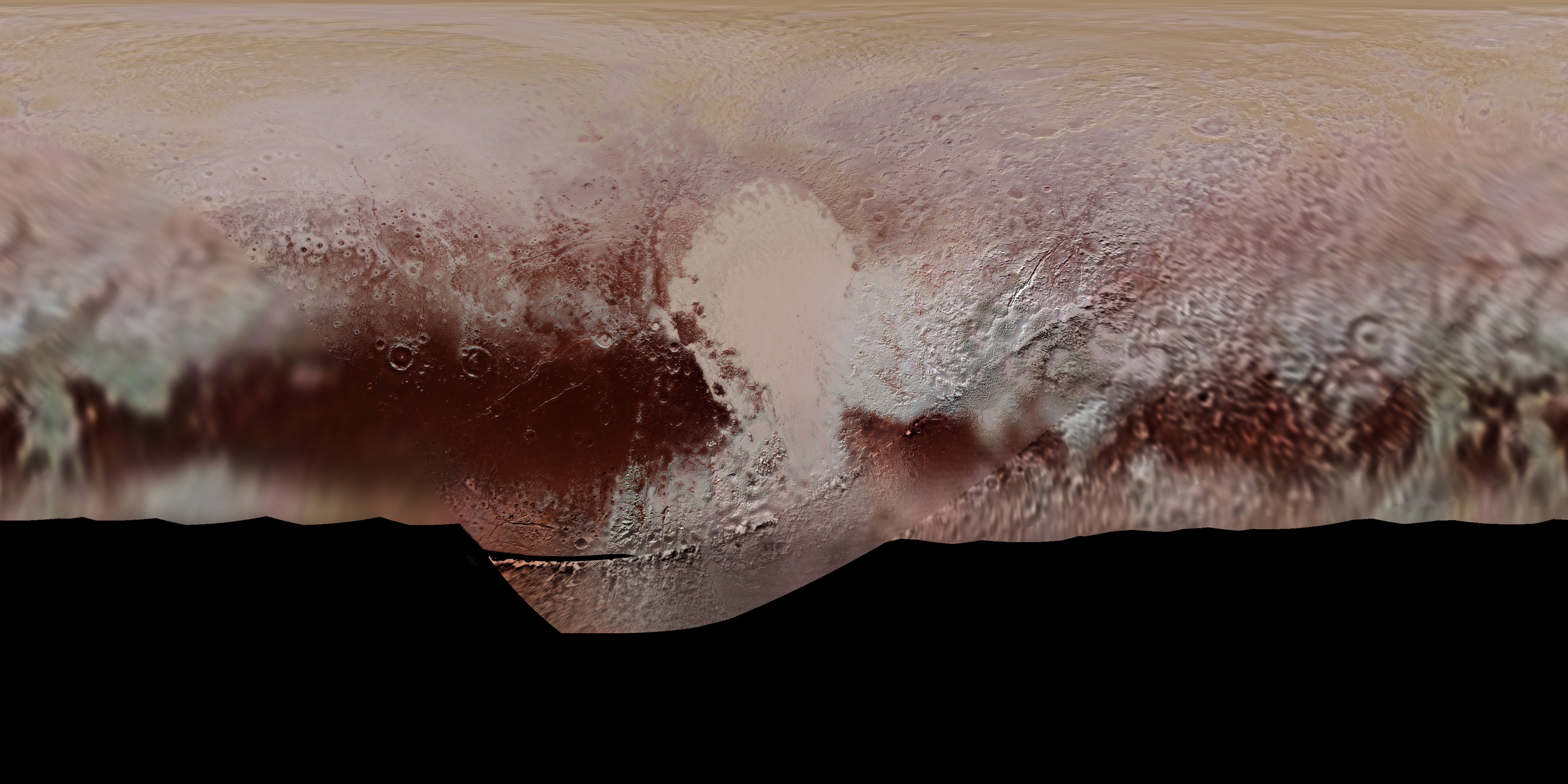 This new, detailed global mosaic color map of Pluto is based on a series of three color filter images obtained by the Ralph/Multispectral Visual Imaging Camera aboard New Horizons during the NASA spacecraft’s close flyby of Pluto in July 2015. The mosaic shows how Pluto’s large-scale color patterns extend beyond the hemisphere facing New Horizons at closest approach, which were imaged at the highest resolution. North is up; Pluto’s equator roughly bisects the band of dark red terrains running across the lower third of the map. Pluto’s giant, informally named Sputnik Planitia glacier – the left half of Pluto’s signature “heart” feature – is at the center of this map